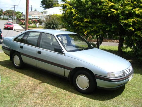 1988–1990 Holden Commodore (VN) Executive sedan. Note: this is equivalent to the Berlina V6 in Australia as the VN Berlina from an Australian context was badged "Executive" in New Zealand.